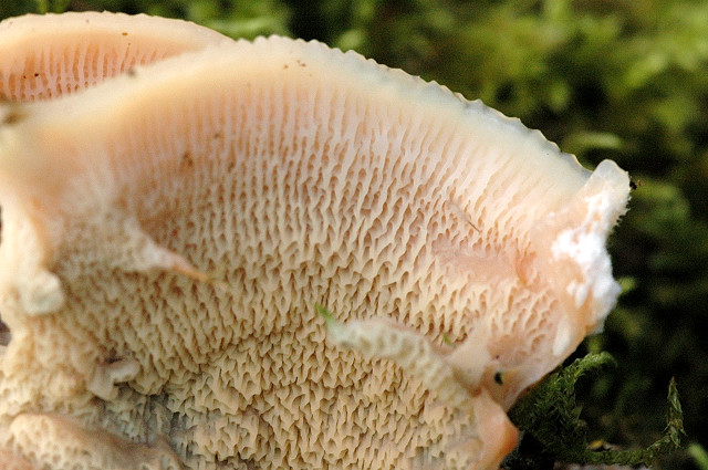 Merulius tremellosus from Commanster, Belgium. The determination of the species shown in this picture has been verified.